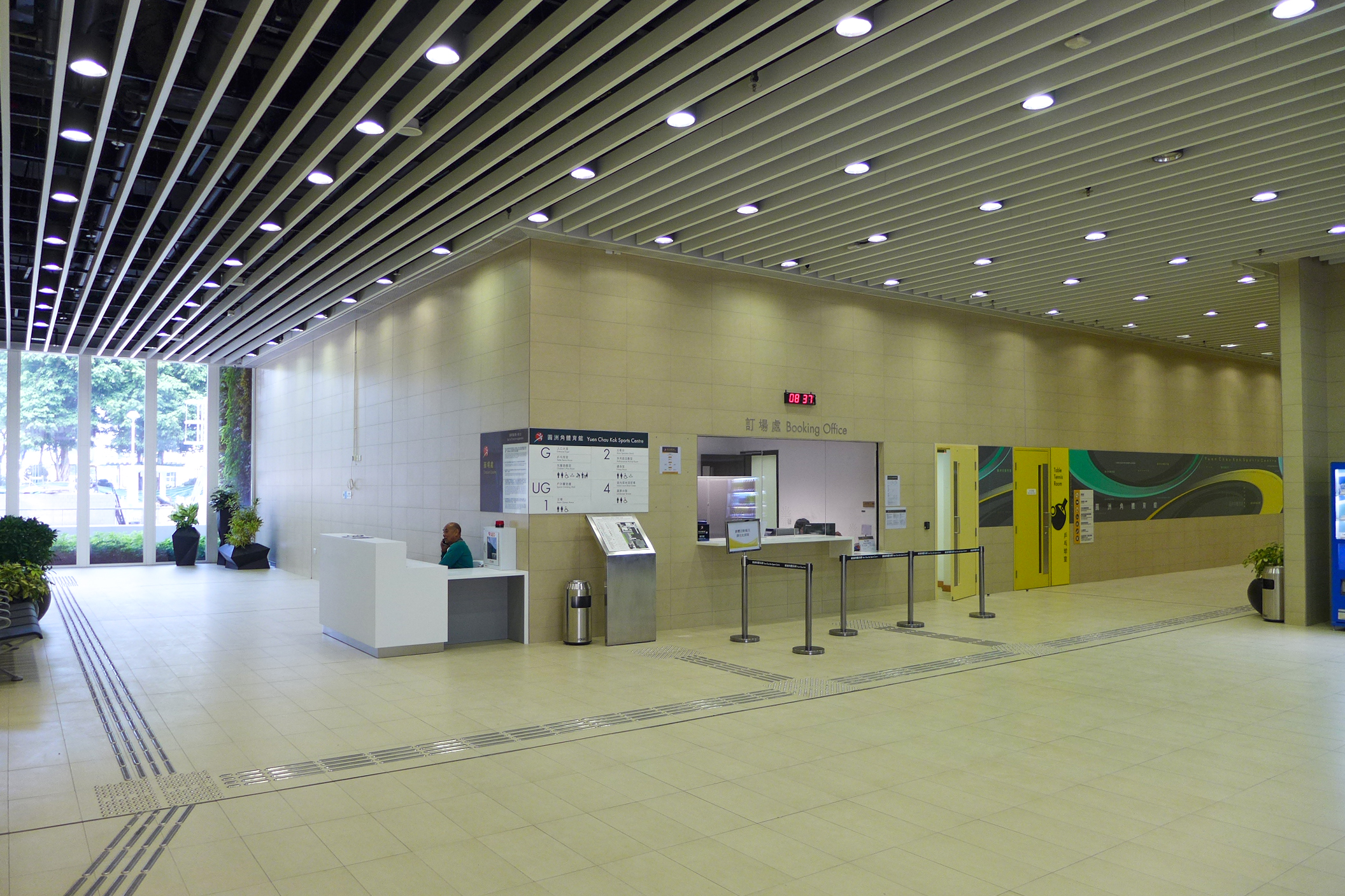 Yuen Chau Kok Sports Centre GF Lobby